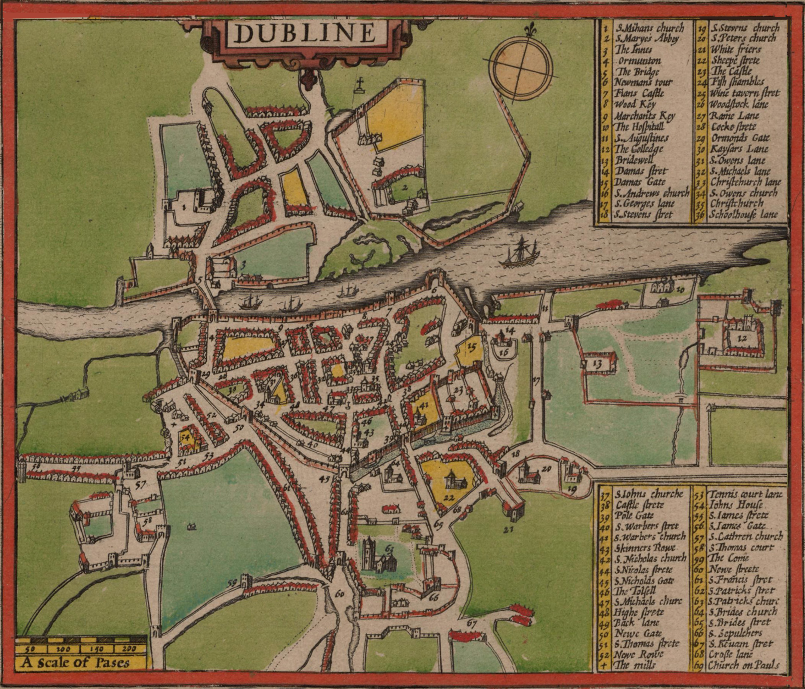 View this map on the BL Georeferencer service. Image taken from: Dublin as published by John Speed in 1610 Reprint of 1896 Title: "Remains of St. Mary's Abbey, Dublin. Their explorations and researches, A.D. 1886" Shelfmark: "British Library HMNTS 10390.h.14.", "British Library HMNTS 4735.g.4." Page: 10 Place of Publishing: Dublin Date of Publishing: 1887 Publisher: Forster & Co. Issuance: monographic Identifier: 002408931 "From JOHN SPEED'S ORIGINAL MAP, SURVEYED IN 1610." Explore: Find this item in the British Library catalogue, 'Explore'. Open the page in the British Library's itemViewer (page image 10) Download the PDF for this book Image found on book scan 10 (NB not a pagenumber)Download the OCR-derived text for this volume: (plain text) or (json) Click here to see all the illustrations in this book and click here to browse other illustrations published in books in the same year. Order a higher quality version from here.